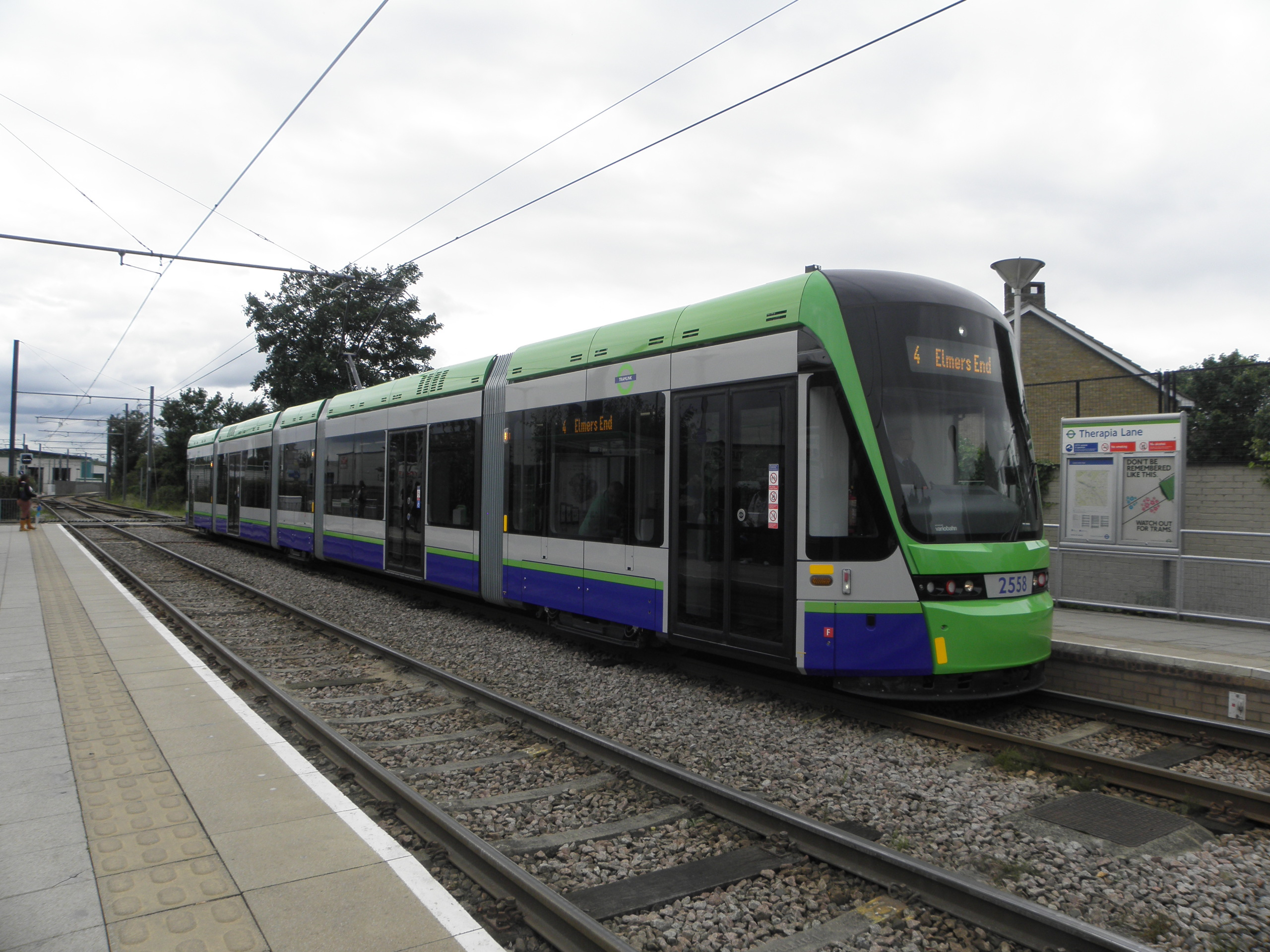 Tramlink tram 2558 at Therapia Lane tram stop about to depart with an Elmers End service in July 2012.